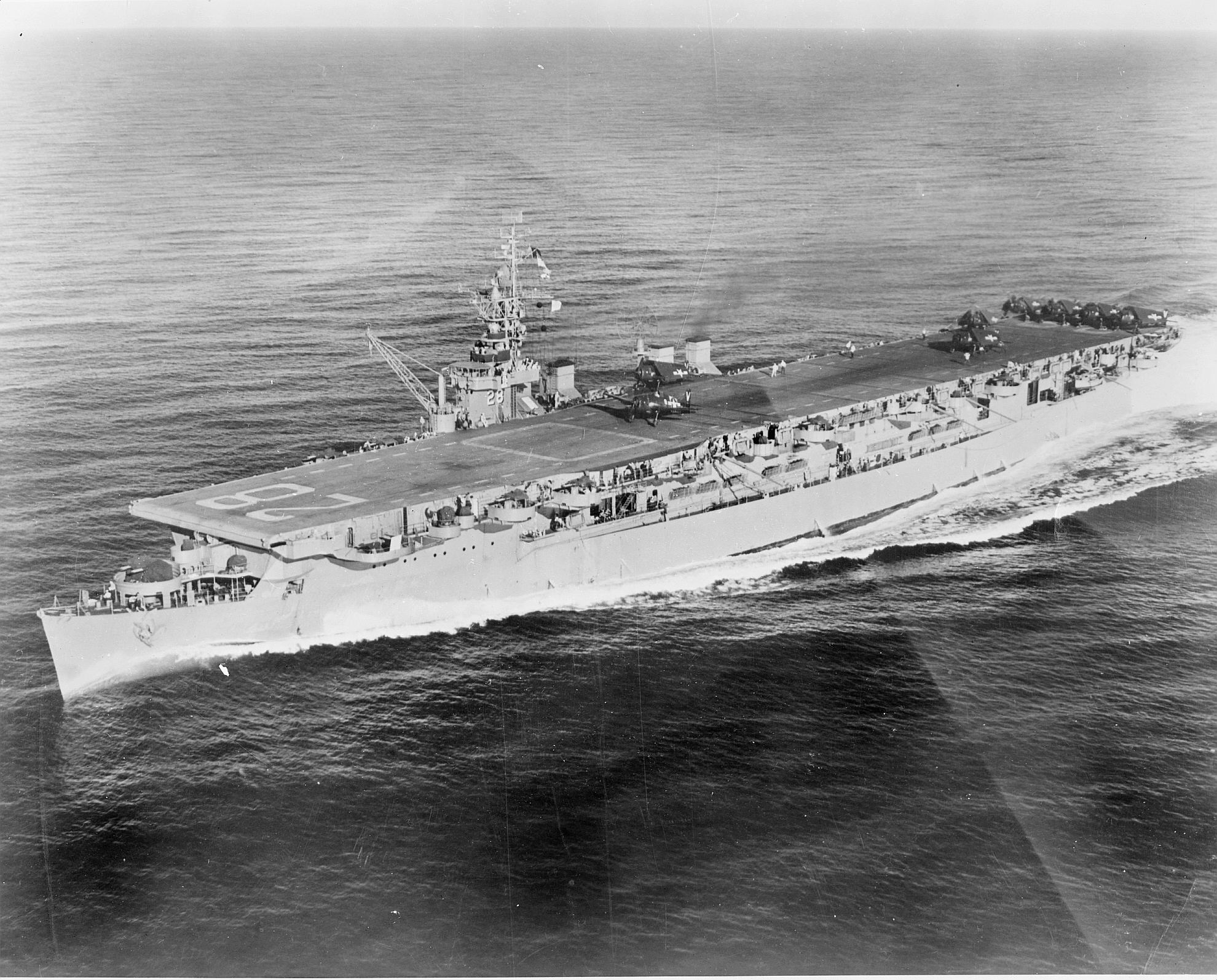 Eight Grumman F6F-5 Hellcat fighters assigned to the U.S. Naval Air Reserve at Naval Air Station Glenview, Illinois (USA), pictured on the deck of the light aircraft carrier USS Cabot (CVL-28) during training operations in the Gulf of Mexico.